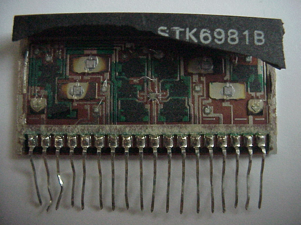 dismantled Hybrid integrated circuit STK6981B: 4-PHASE STEPPING MOTOR DRIVE FOR UNIPOLAR CONSTANT-CURRENT CHOPPER DRIVER